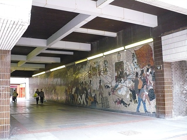 Chartist mural, John Frost Square Located at one of the entrances to John Frost Square, the mosaic mural depicts the Chartist uprising of 1839. Created by Kenneth Budd and completed in 1978, the mural is 120 ft long, 12 ft high and contains 200,000 separate pieces of tile. This area is to be demolished and the mural is to be replaced with an exact replica at a cost of £210,000. A contemporary report of the Chartist uprising can be seen here .